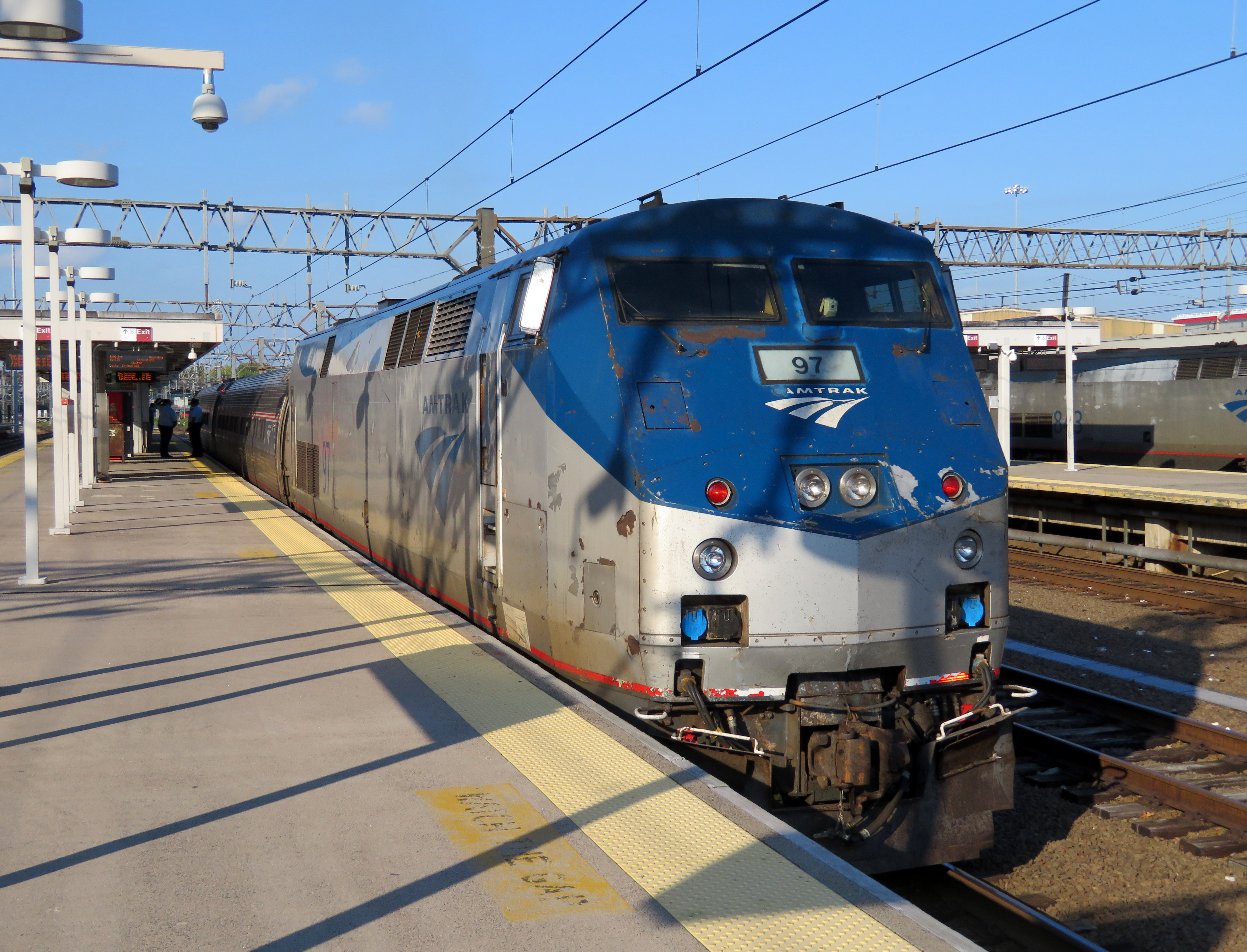 New Haven-Springfield Shuttle train at New Haven Union Station in September 2018